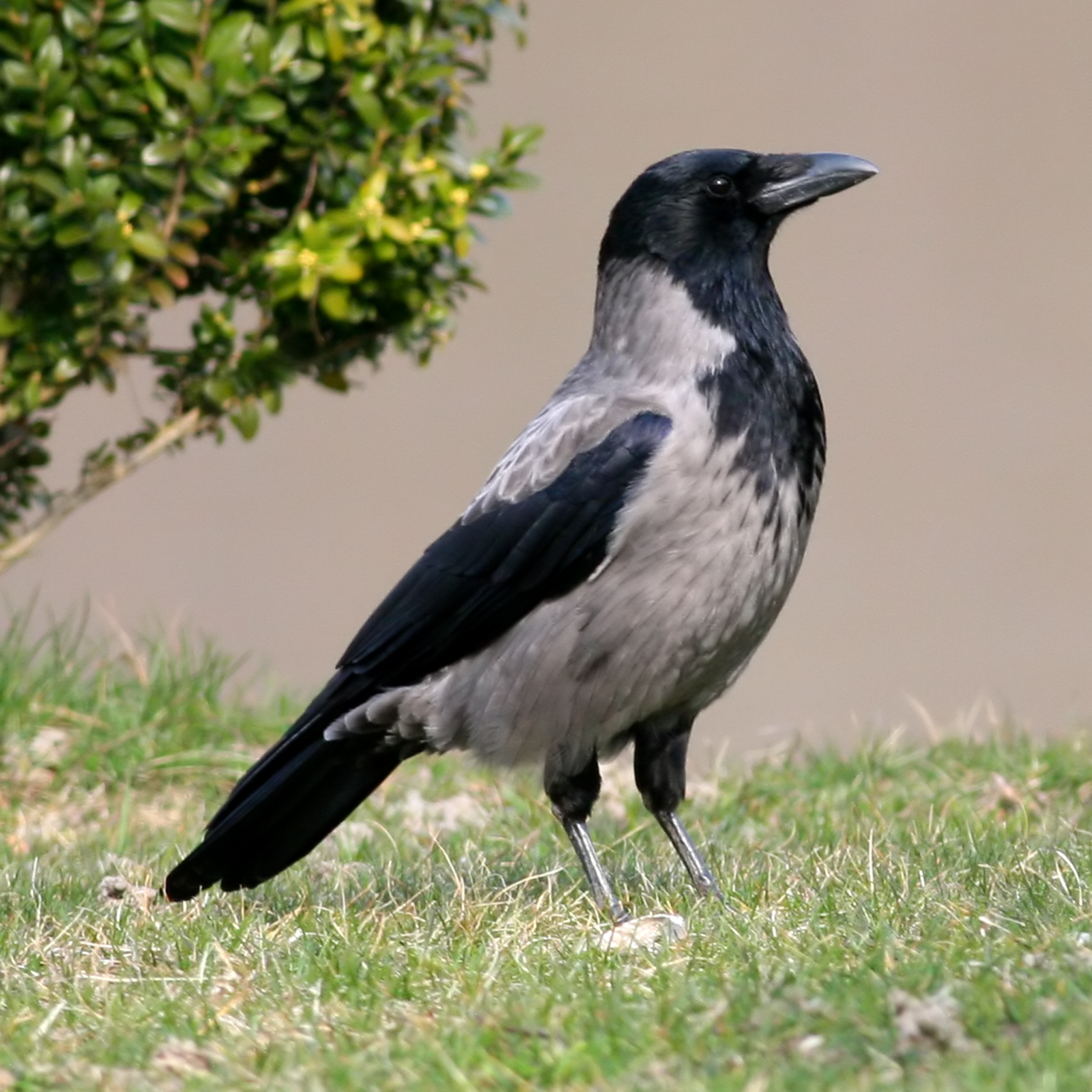 Hooded Crow (Corvus cornix) Photo taken at Bolle di Magadino, Ticino, Switzerland